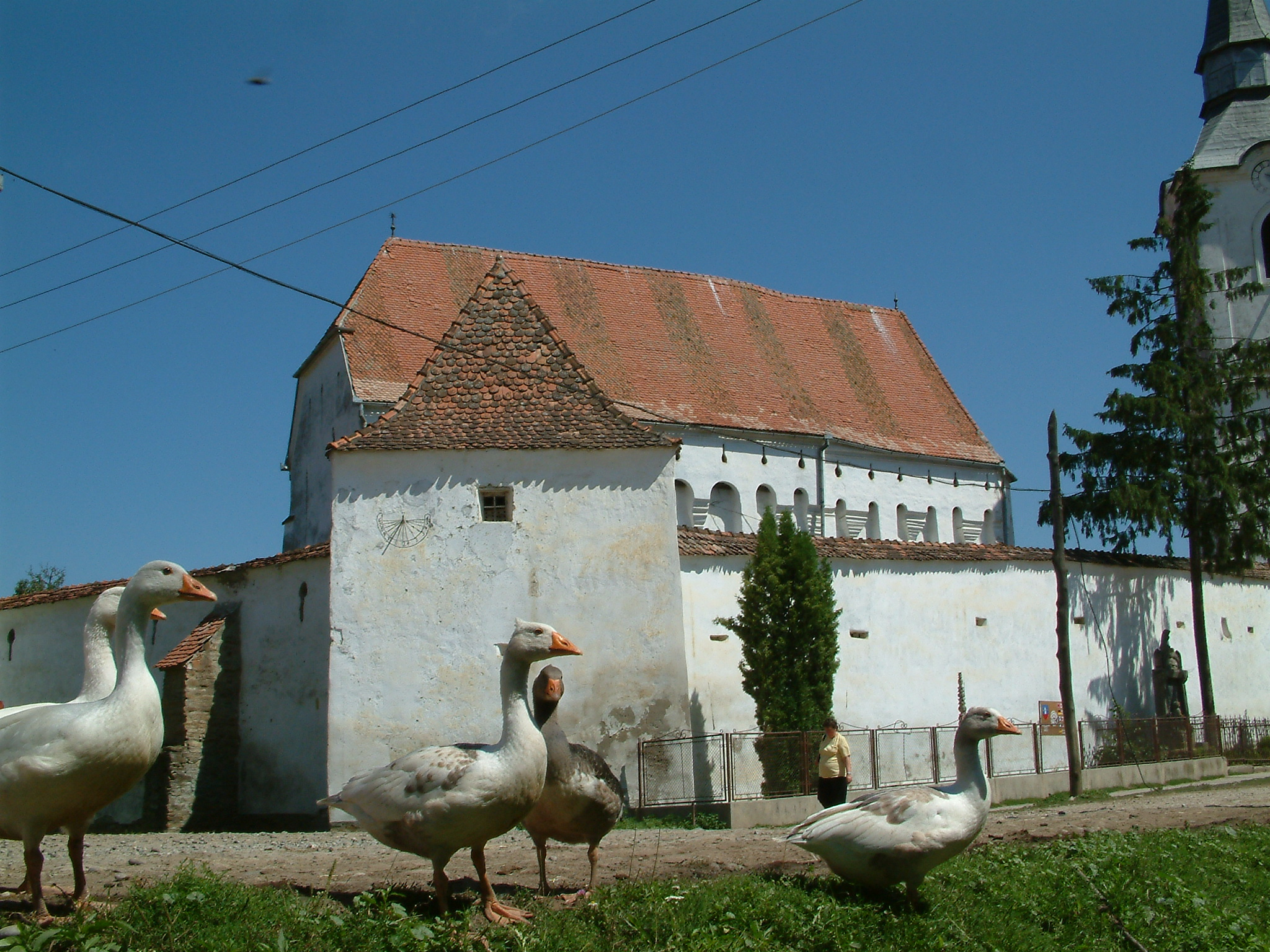 Unitarian Church in Székelyderzs, Transylvania, Romania. Listed on UNESCO World Heritage List.